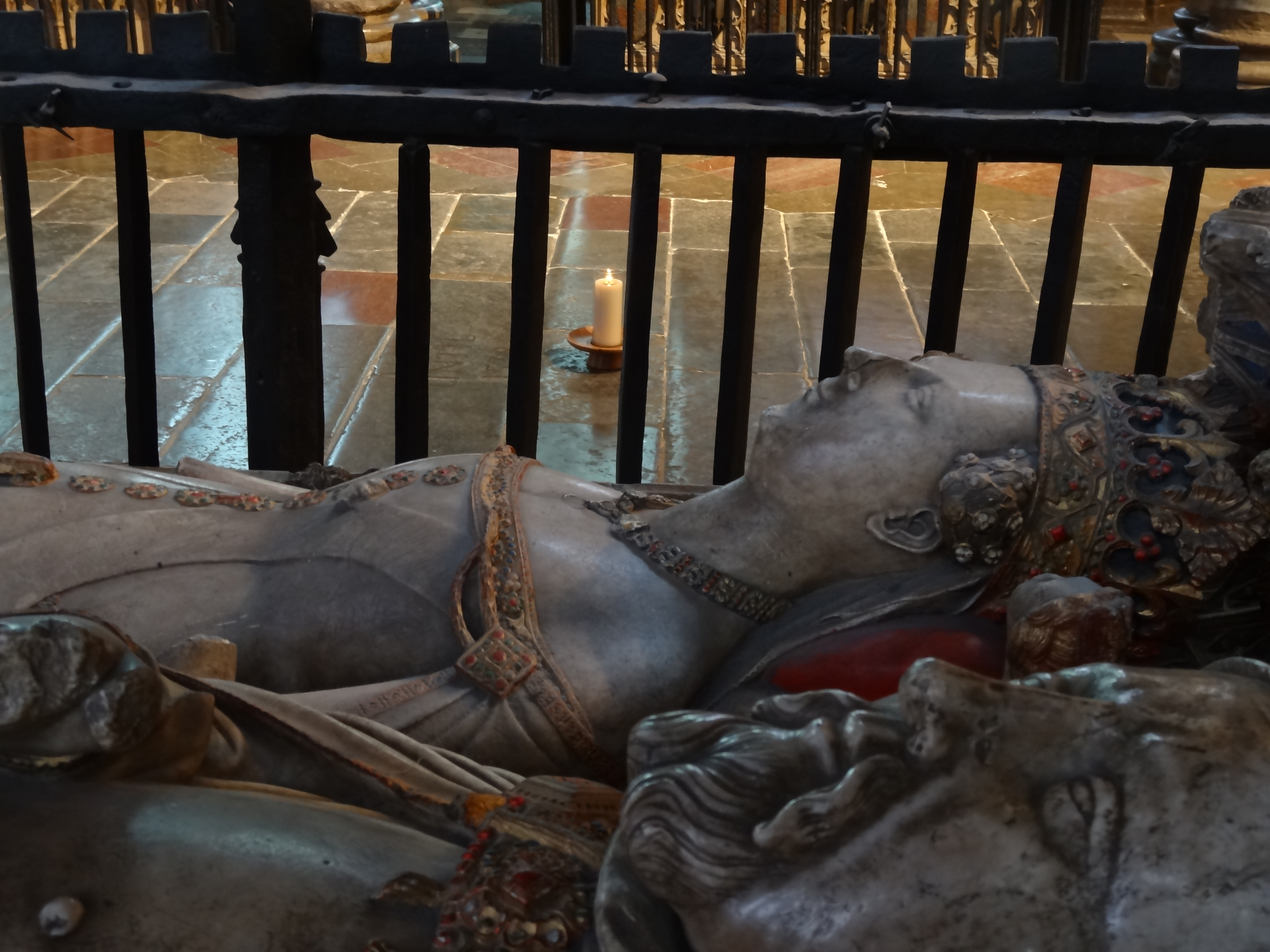 Henry the IV's tomb, Canterbury